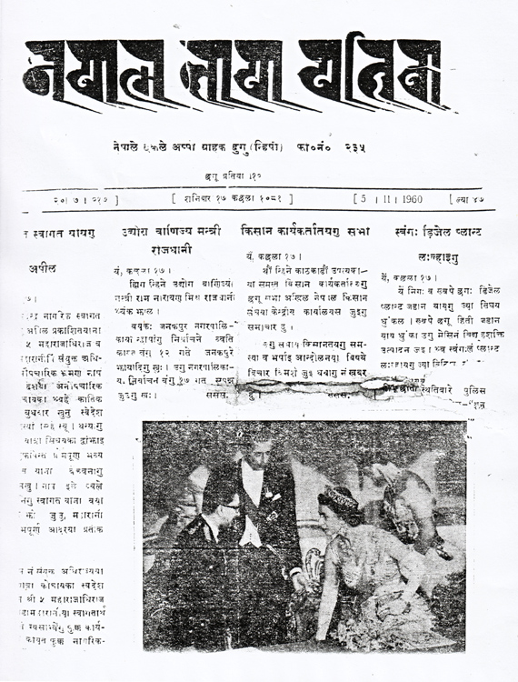 Scan of front page of Nepalese daily newspaper Nepal Bhasa Patrika published from Kathmandu dated 5 November 1960.